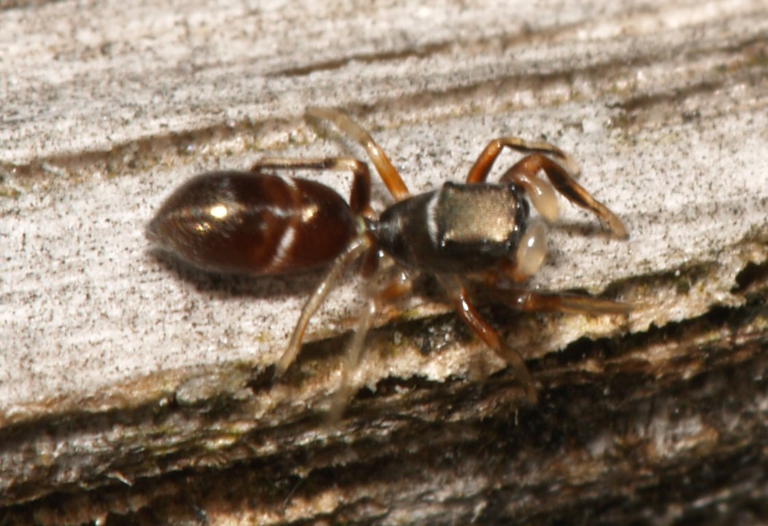 Synageles venator from a garden in Heupelzen, Germany.